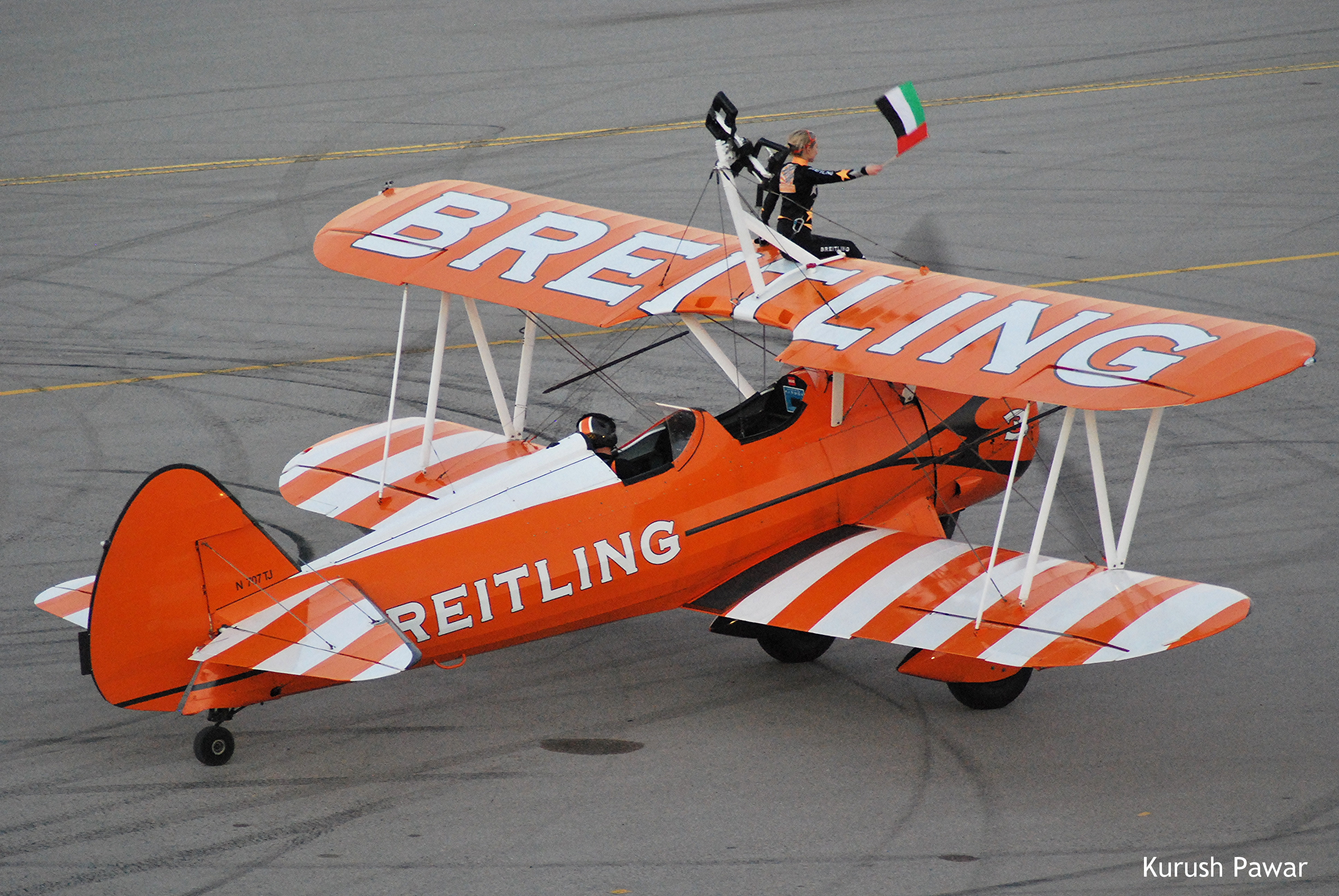 Freya 'Princess' Paterson on board her Boeing Stearman biplane, waves the UAE flag and acknowledges the huge amount of appreciation shown by the spectators at the 10th Al Ain Aerobatic Show.